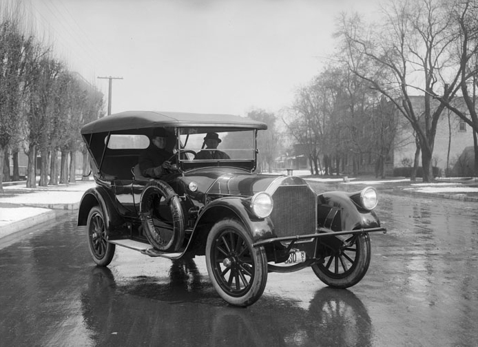 Botterill Auto Company, 1915 Pierce Arrow Town Car